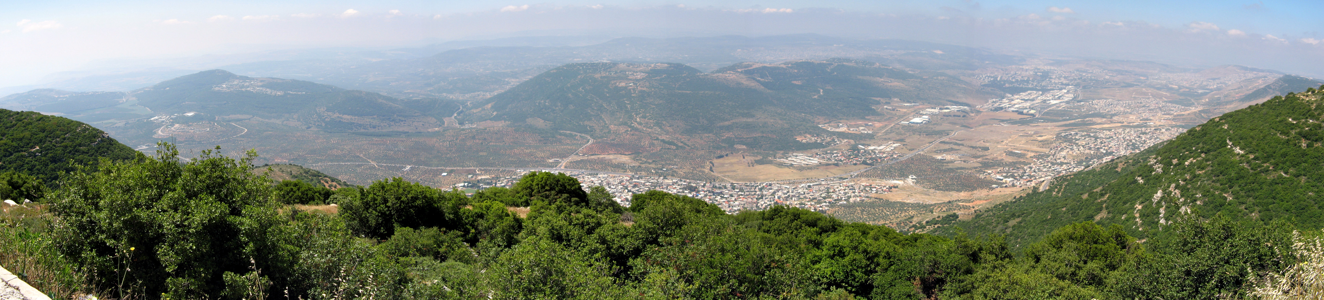 Panorama from Har Ari in the Galilee looking southwards, the large town in the middle is Rameh and the hill behind it is Har Kamon